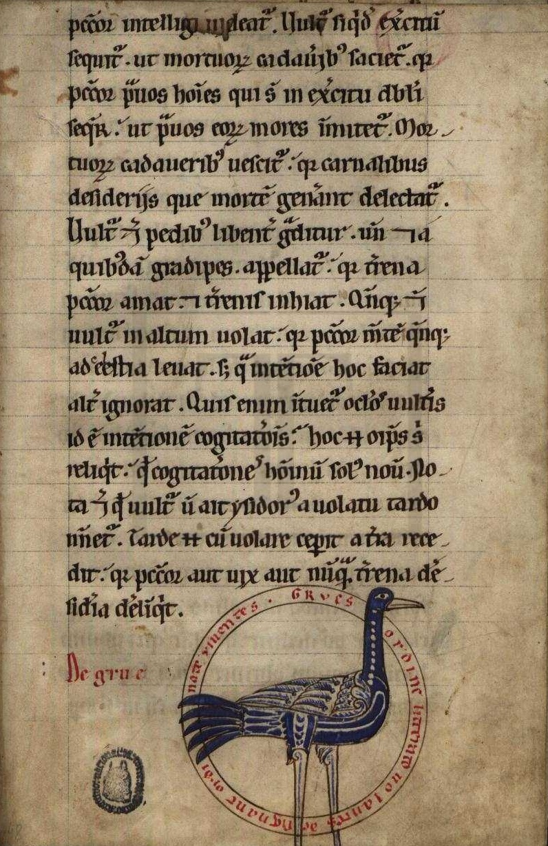 Livro das Aves: the Crane